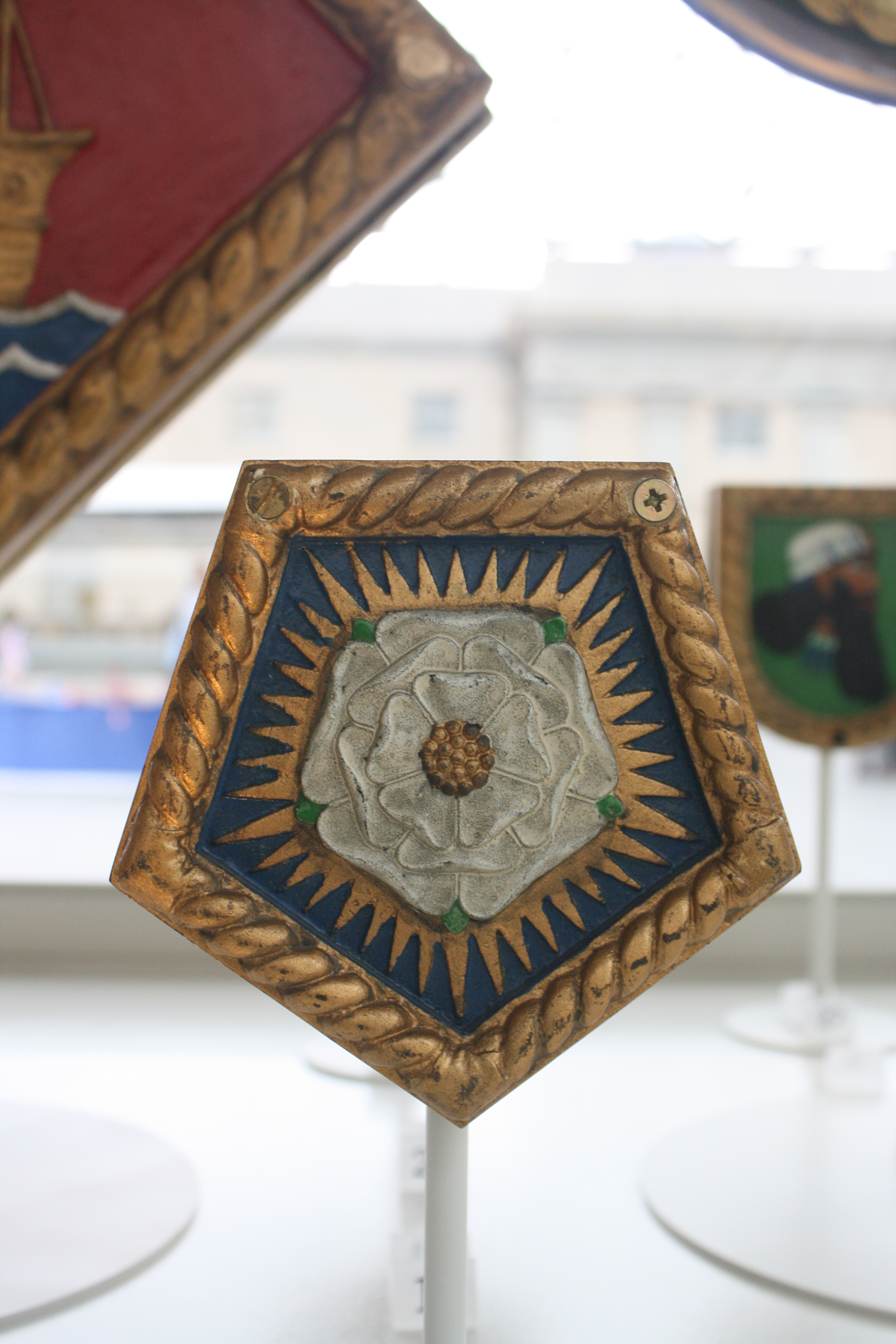 Ship heraldry at the NMM